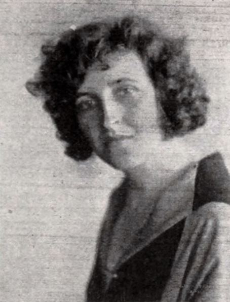 Screenwriter Winifred Dunn (1898 - ?), on page 63 of the February 4, 1922 Exhibitors Herald.